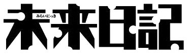 Future Diary's logotype